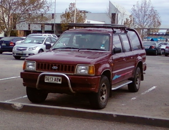 A Ford Raider 4WD Wagon. The Raider is a badge-engineered Mazda which was marketed in Australia circa 1991 to 1997.